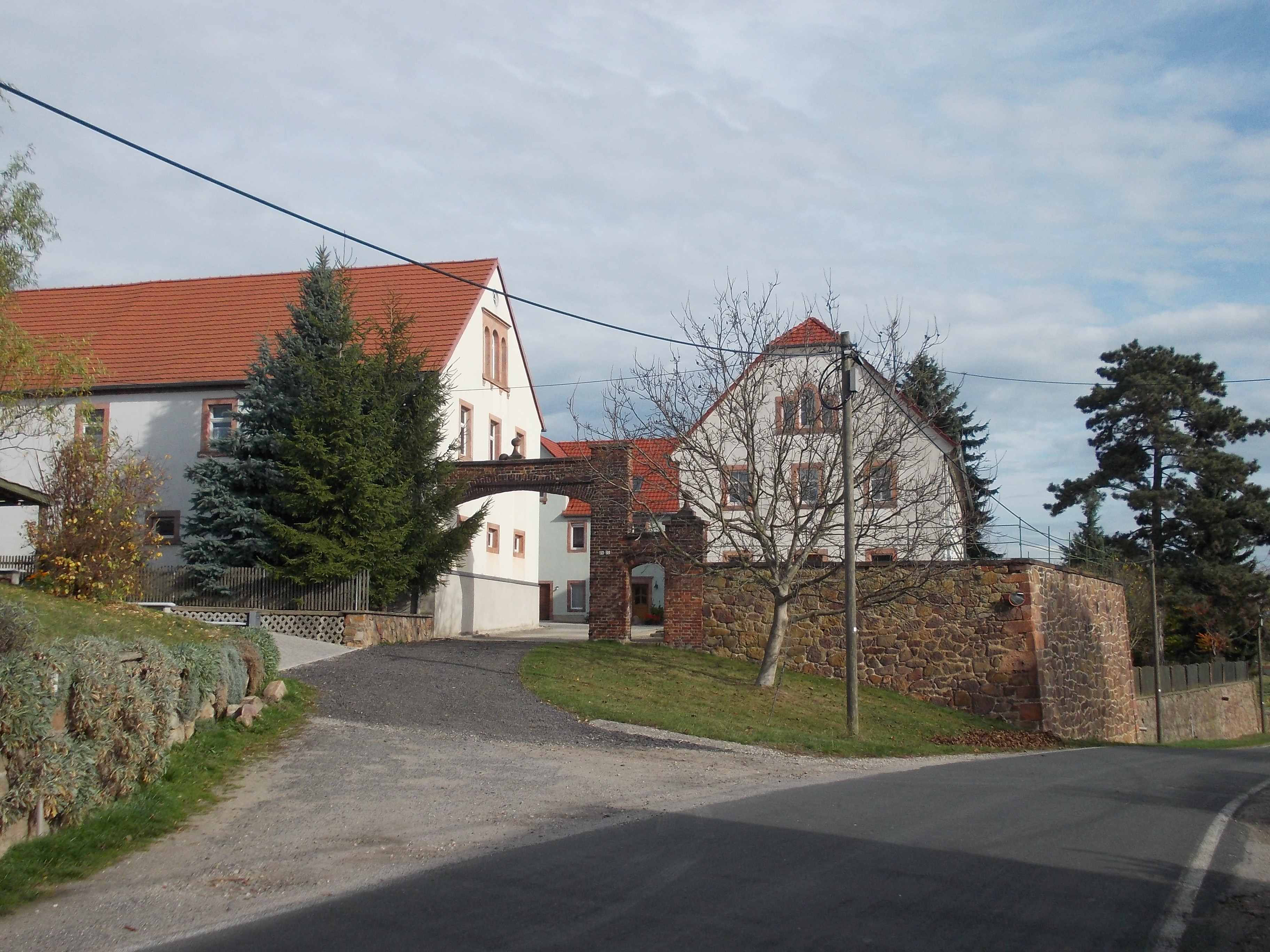 Farmstead in Weissbach (Königsfeld, Mittelsachsen district, Saxony)